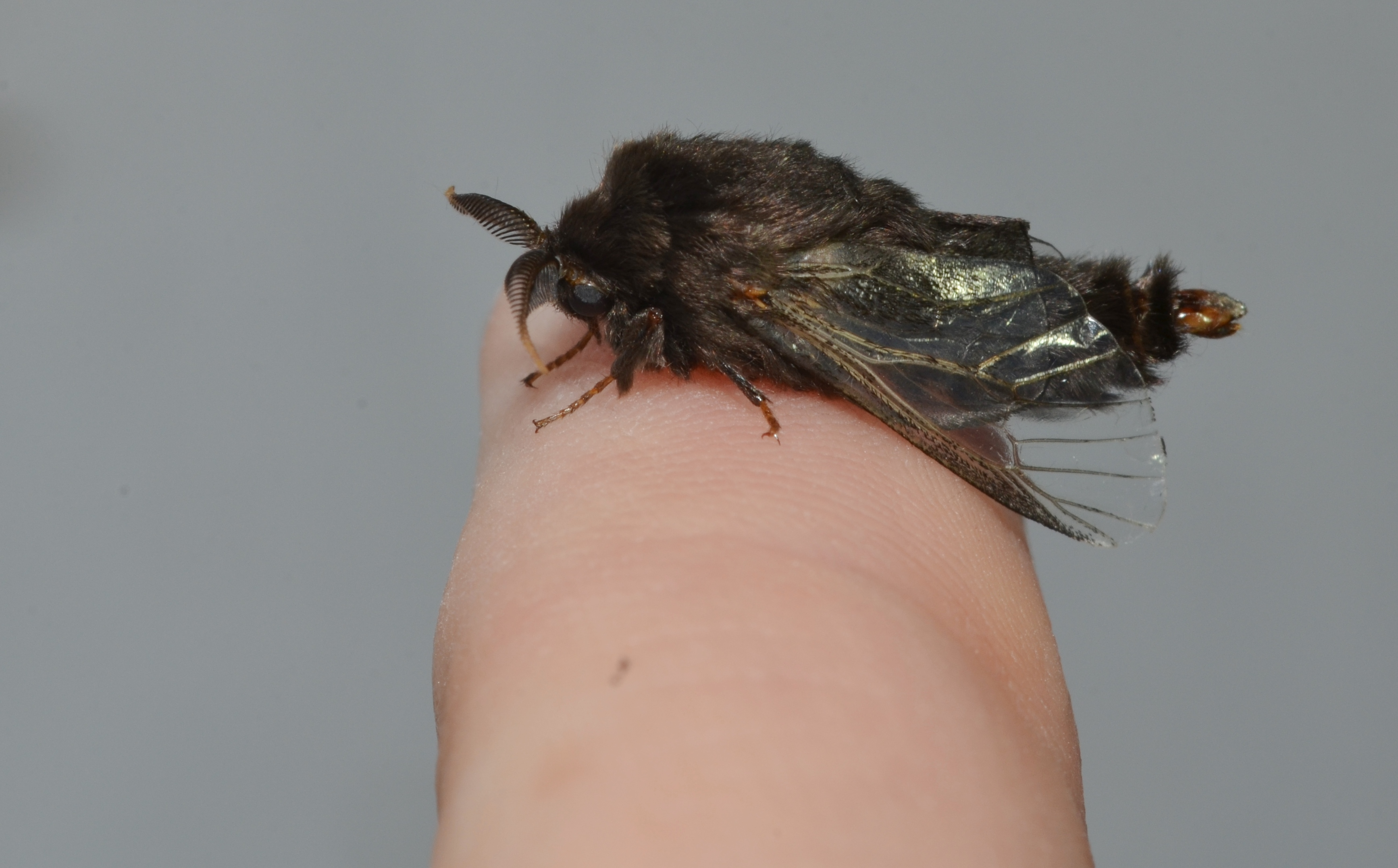 0457 - Thyridopteryx ephemeraeformis – Evergreen Bagworm Moth